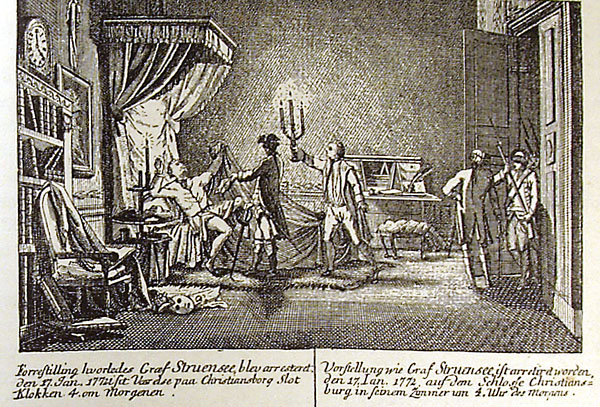 Struensee's arrest - from "Fabricius:Illustreret Danmarkshistorie for folket" (Fabiricius: Illustrated History of Denmark for the People, 1915 18th century woodcut